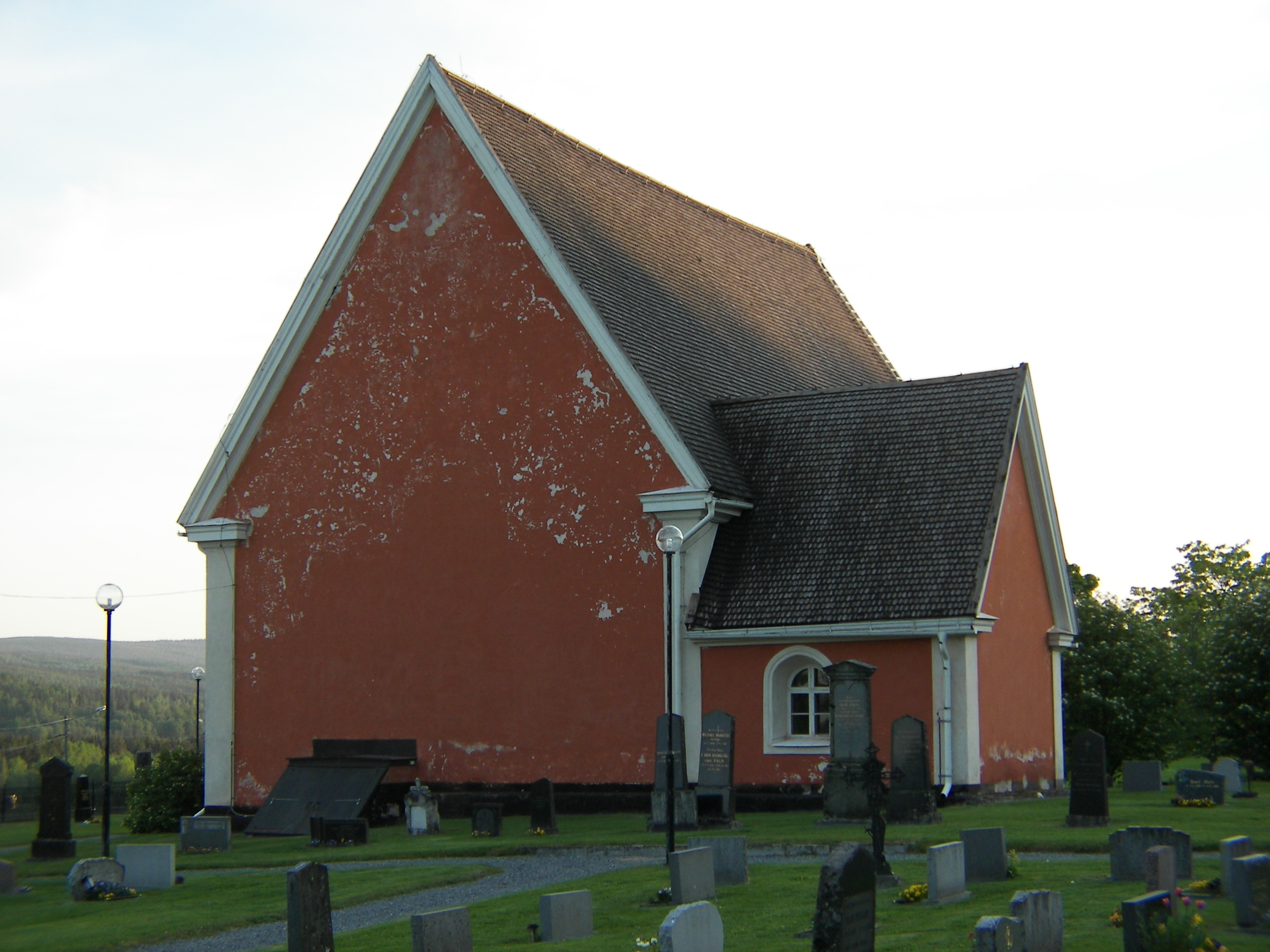 Sånga church, Sweden